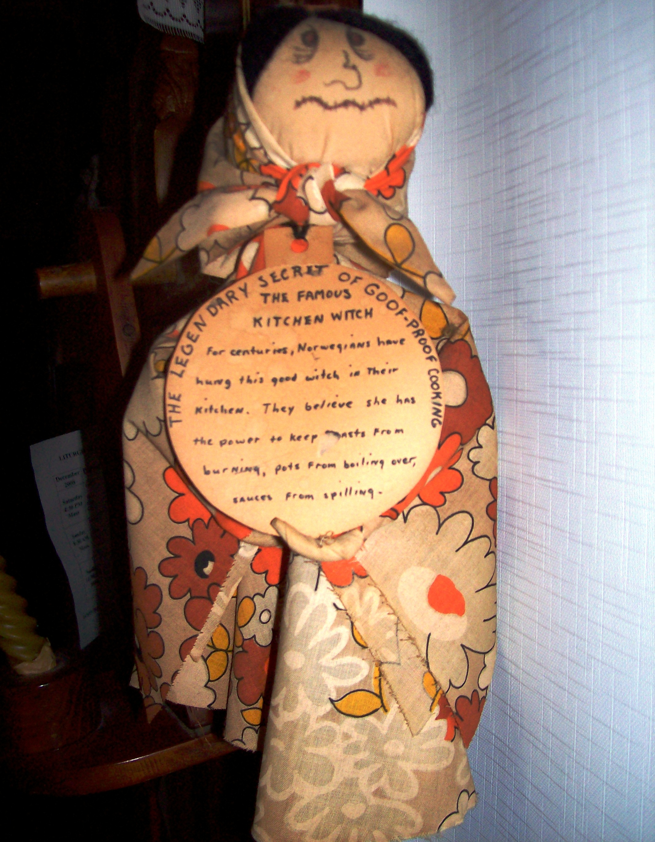 Photo of a Norwegian kitchen witch